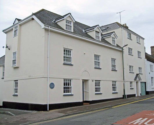 23 Glendower Street, Monmouth, previously Hyams Mineral Works. 19th Century building, produced and bottled mineral waters in early 20th century